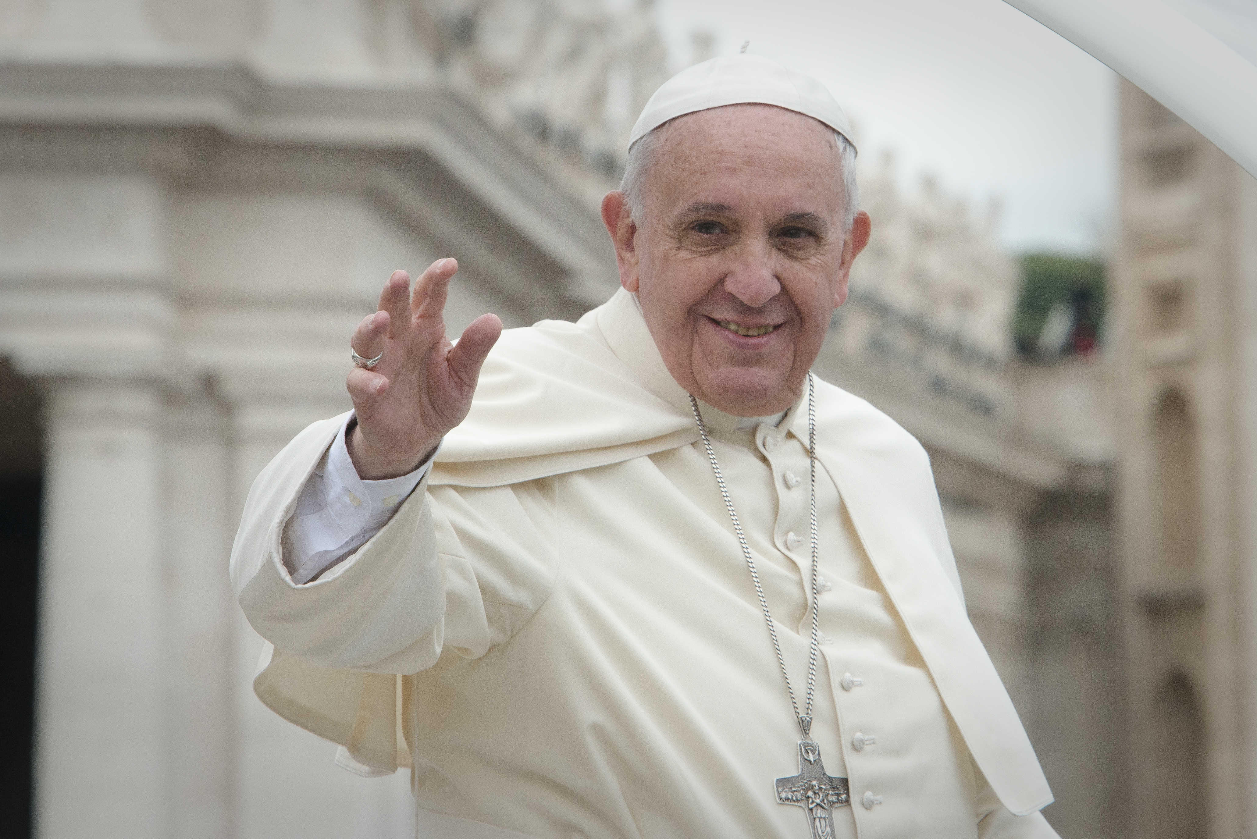 ROME,VATICAN 27 APRIL: Images taken from what will go down in history as one of the largest and most important days in current history. The Canonization of Blessed Pope John XXIII and Blessed Pope John Paul II. Two beloved Popes from the 20th Century.